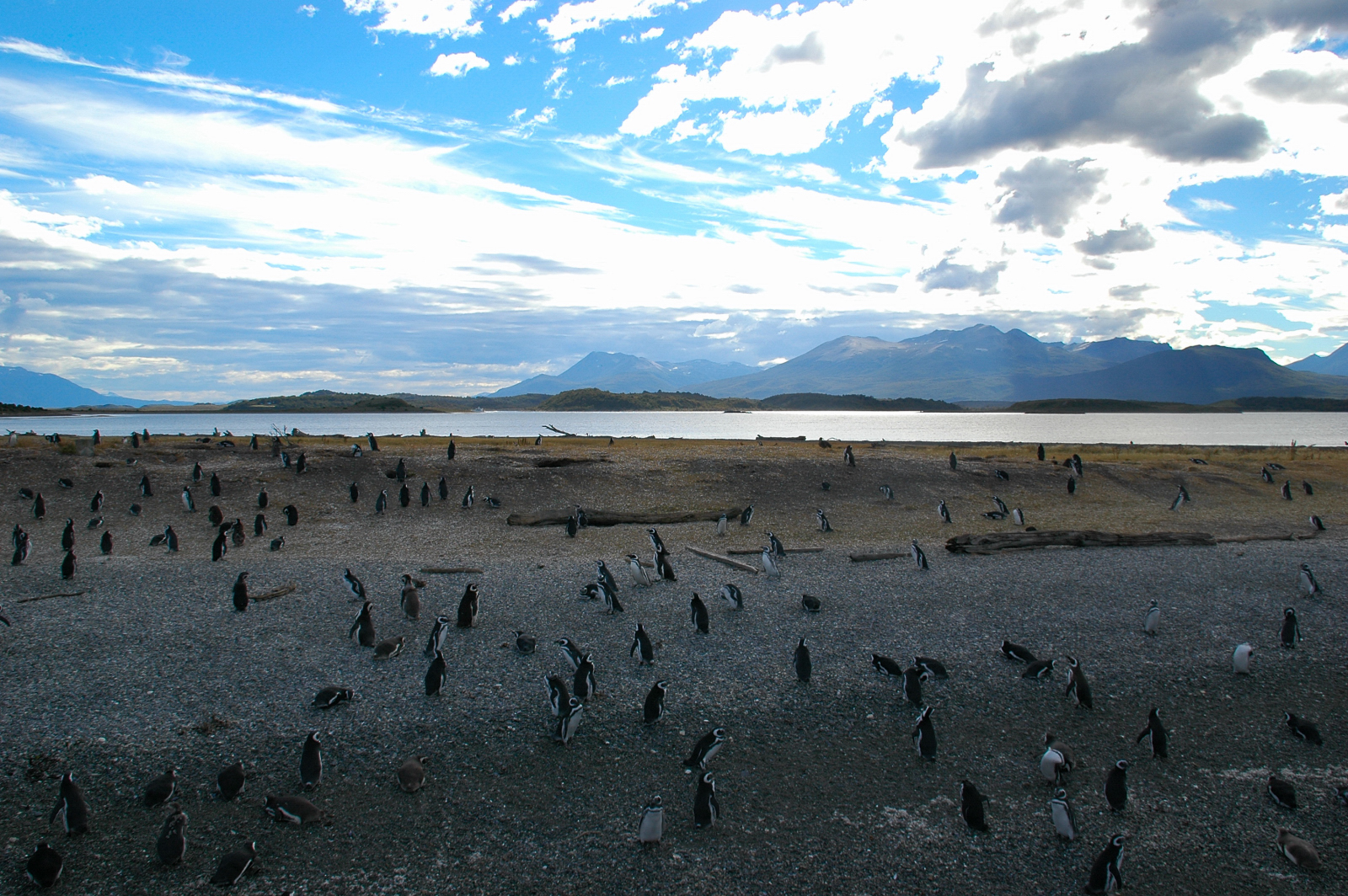 Magellanic Penguins (Spheniscus magellanicus), Beagle Channel.